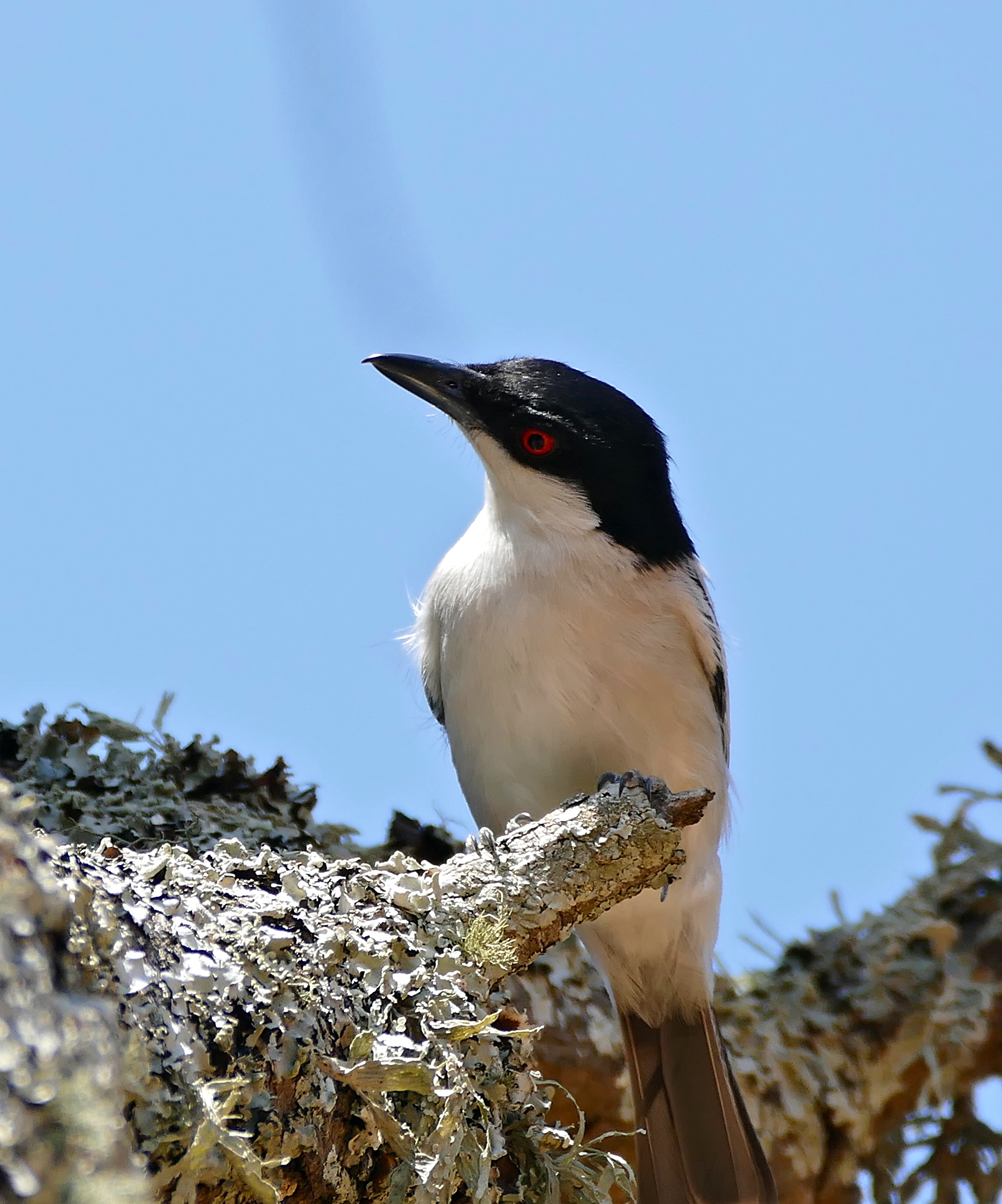 A male Black-backed puffback at Ntshondwe Camp, Ithala Game Reserve, Kwazulu-Natal, SOUTH AFRICA